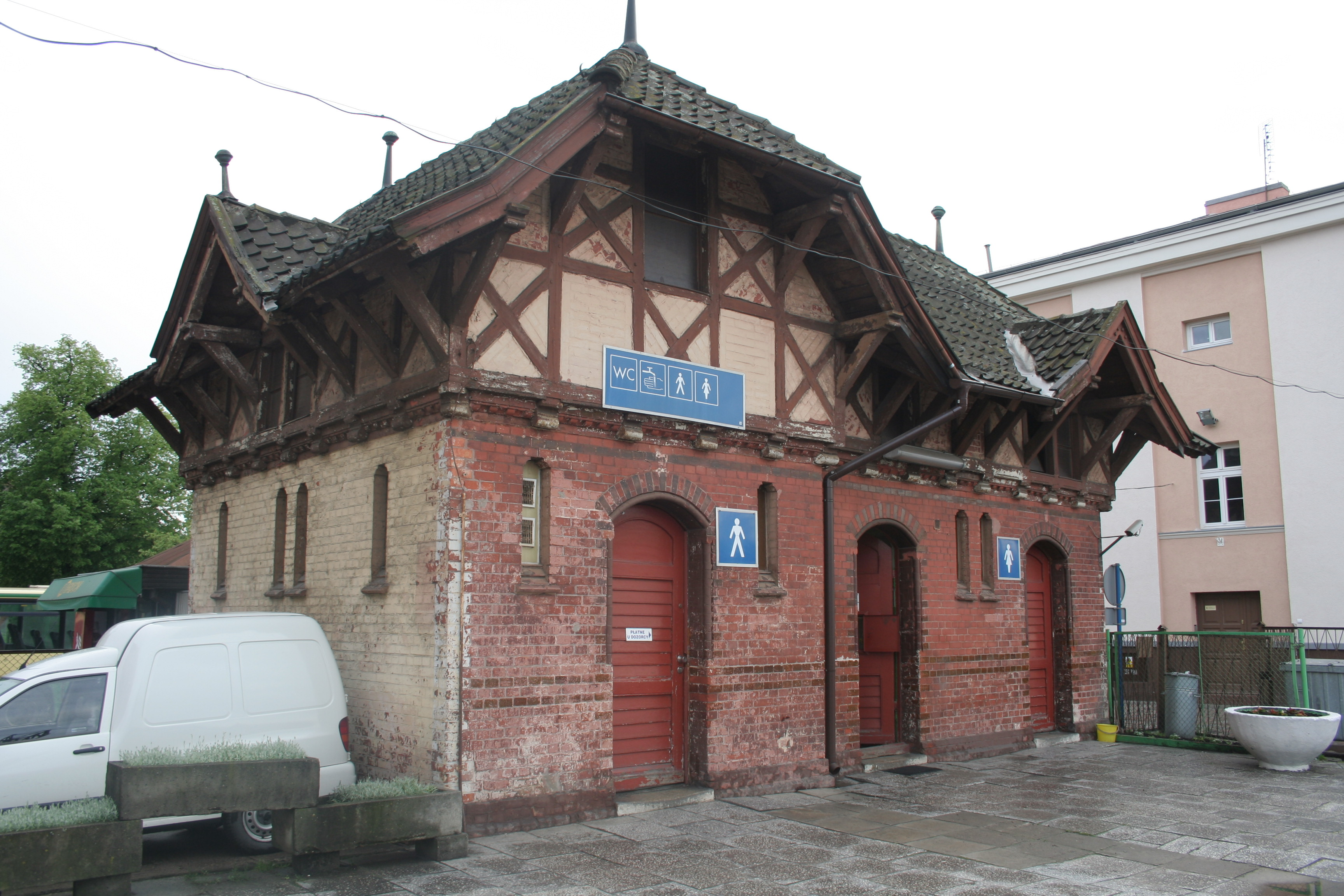 Public toilet next to the station building in Malbork.